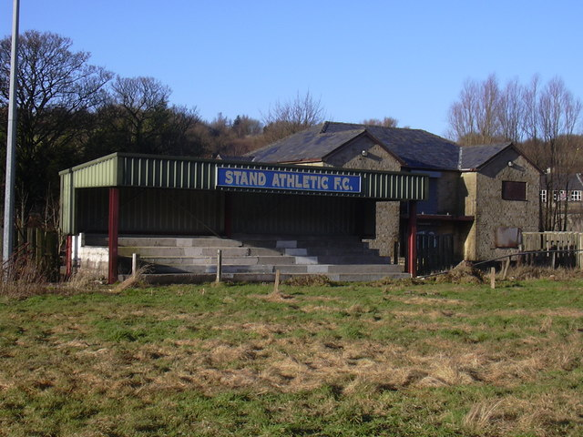 Abandoned Football Club